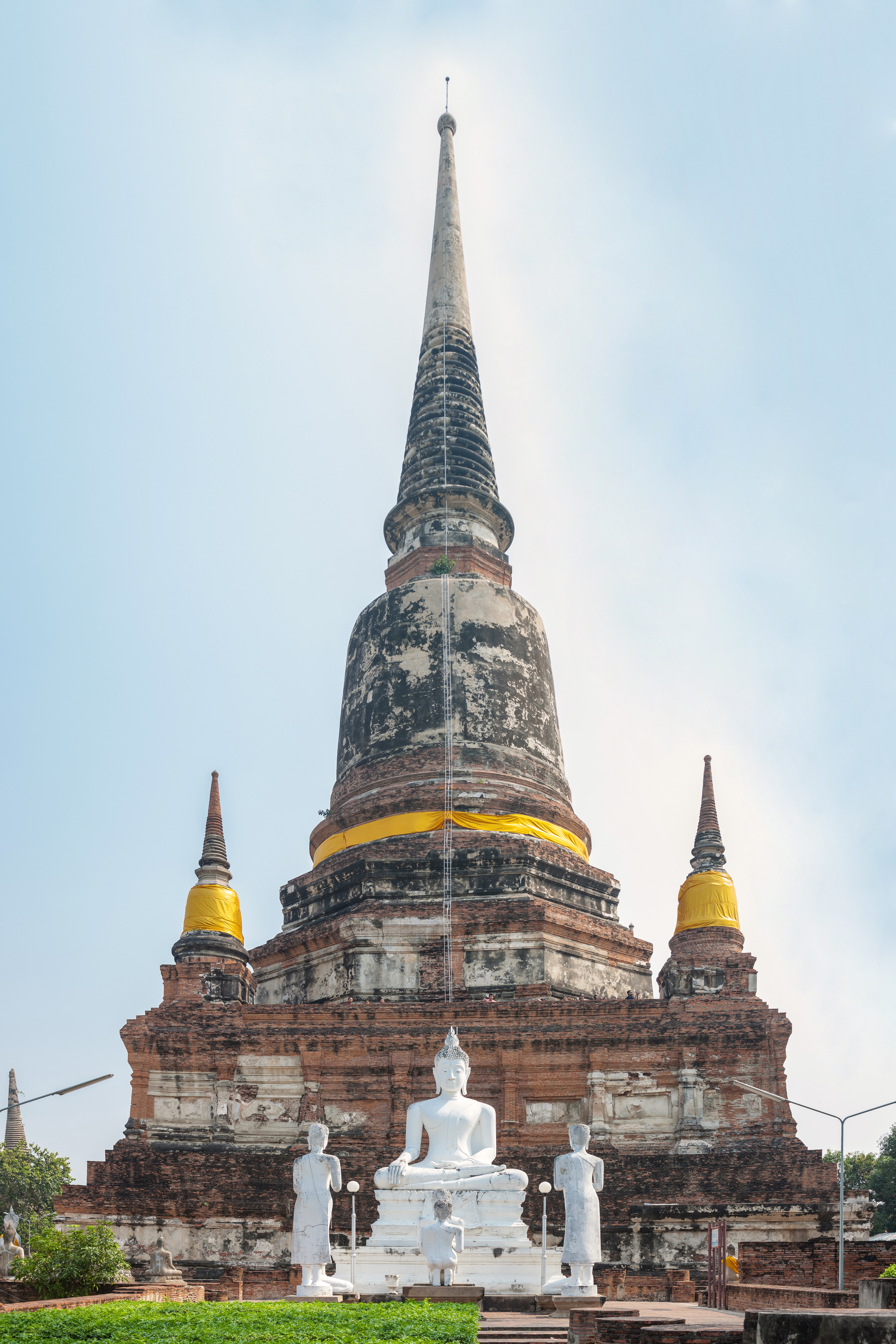 Chedi of Wat Yai Chai Mongkon (also: Wat Yaichai Mongkol, Wat Chao Phraya Thai), Phra Nakhon Si Ayutthaya District, Phra Nakhon Si Ayutthaya Province, Thailand.